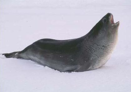 A Ross Seal (Ommatophoca rossi).